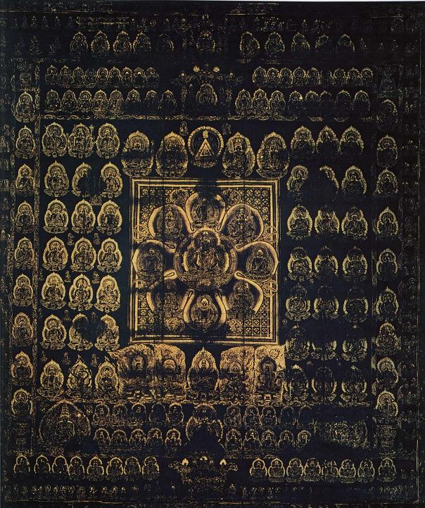 Mandala of the Womb Realm from Mandala of the Two Realms (紺綾地金銀泥絵両界曼荼羅図, konayajikingindeie ryōkaimandarazu) at Kojimadera (子嶋寺), Takatori, Nara, Japan. One of two hanging scrolls. Gold and silver paint on dark blue silk. The scrolls have been designated as National Treasure of Japan in the category paintings.